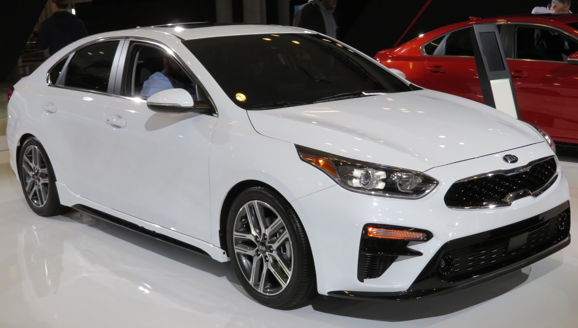 In New York International Auto Show, at Manhattan, New York, USA